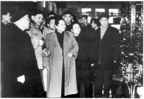 Soong Ching-ling was visiting Shanghai Electric Machinery Factory